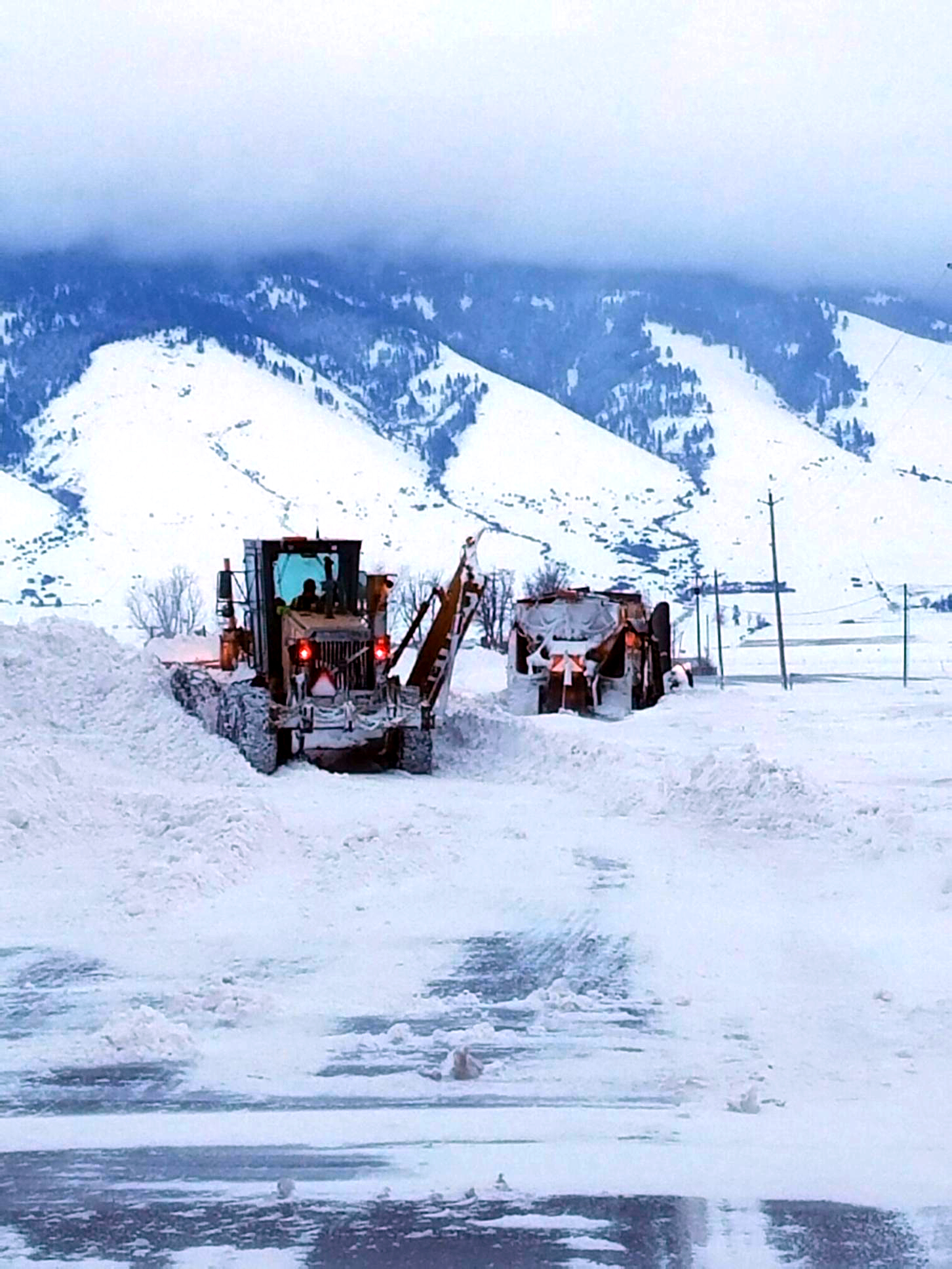 A grader operator works on snow removal on OR 237 in eastern Oregon on Dec. 27, 2016.